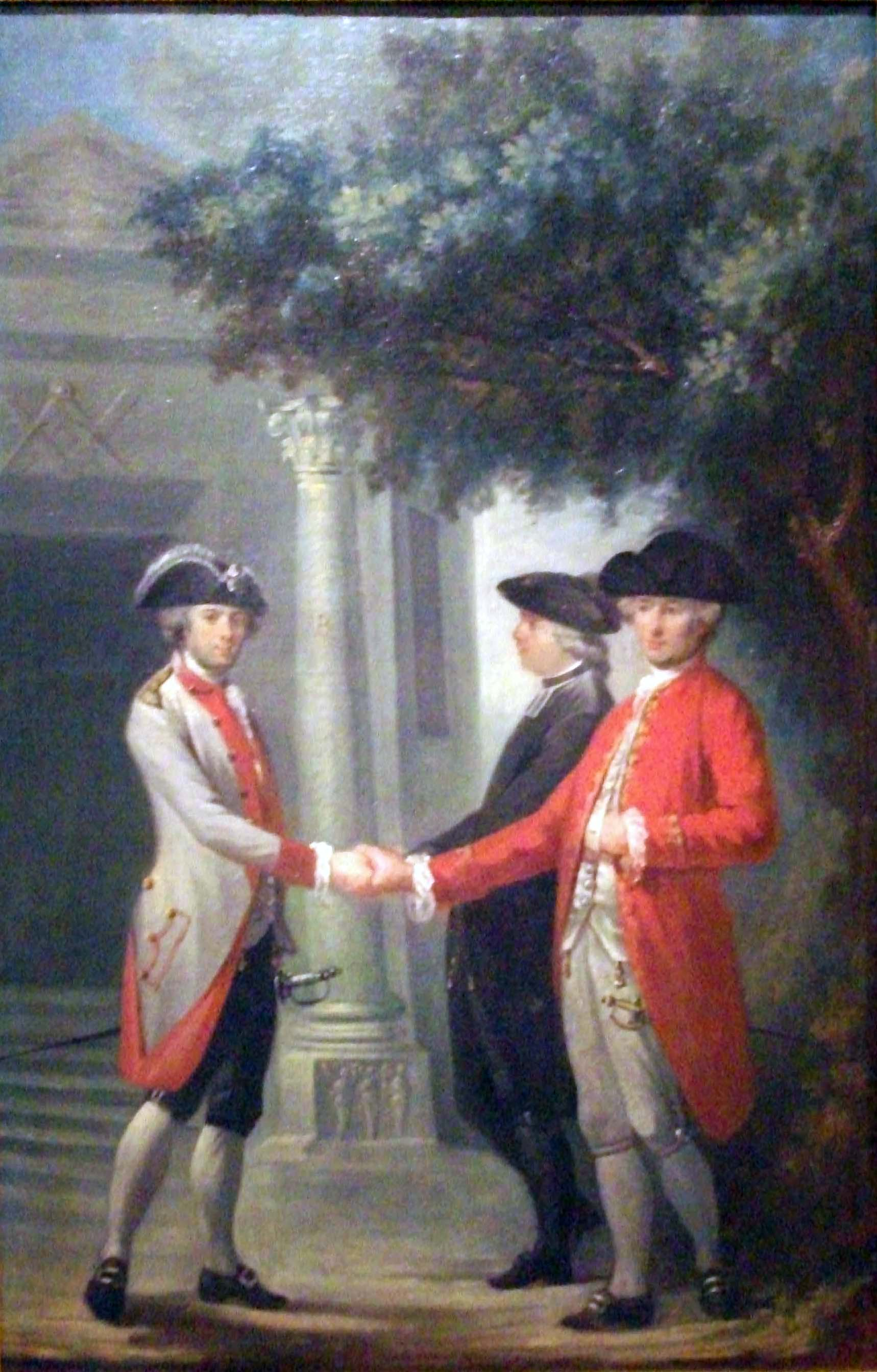 It was most likely painted at the beginning of the French Revolution. It symbolizes a reconciliation between the three orders (the third estate, the nobility and clergy), at the entrance of a Masonic hall.